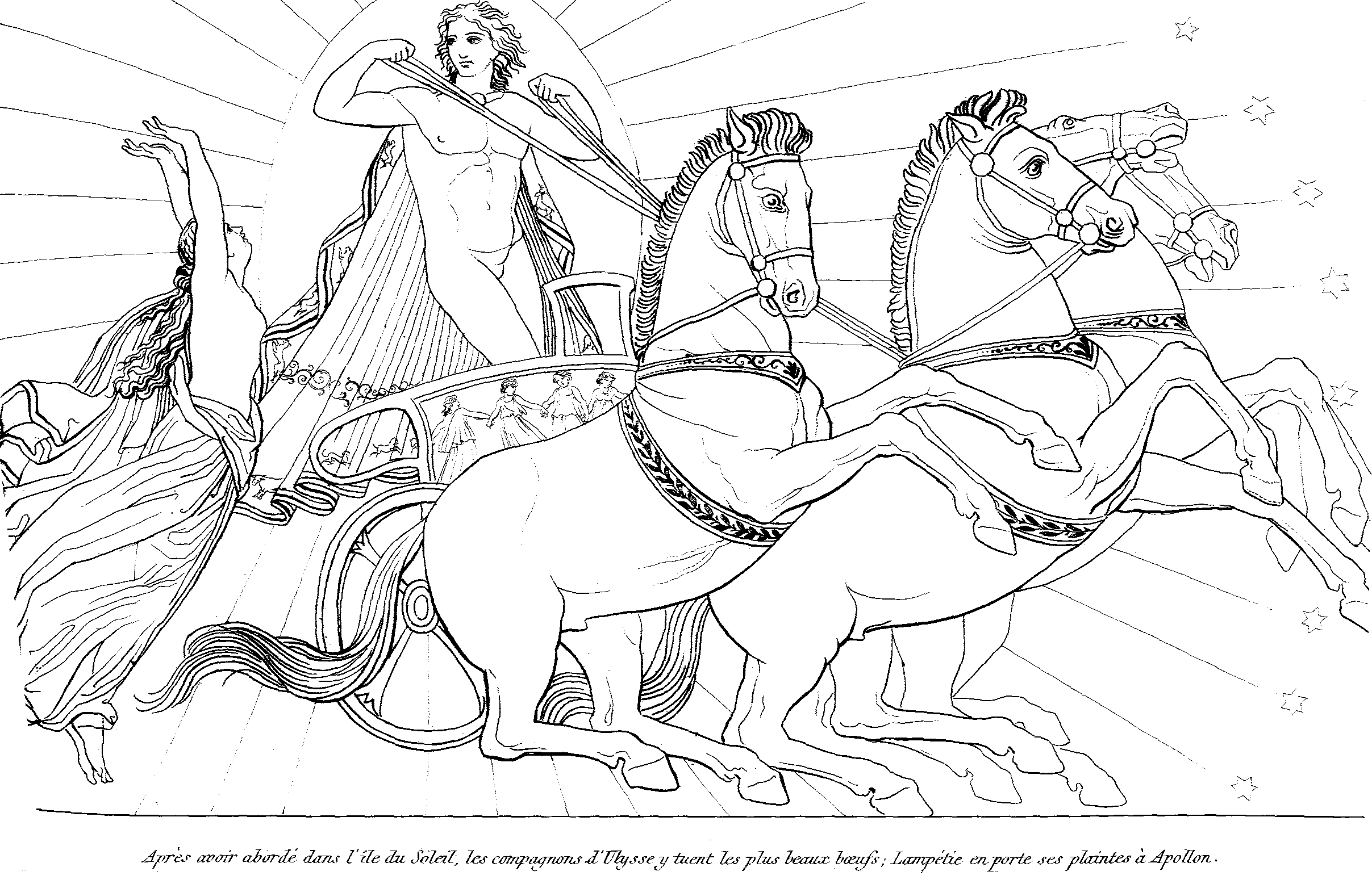 Illustrations of Odyssey